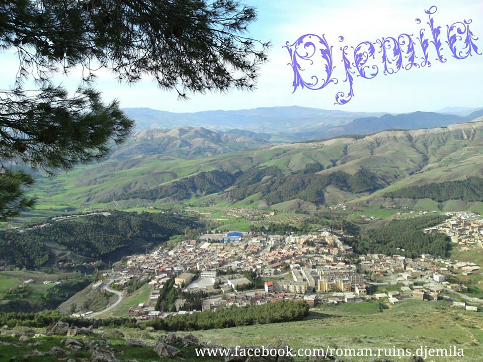 djemila